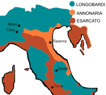 Bizantine province of Venice